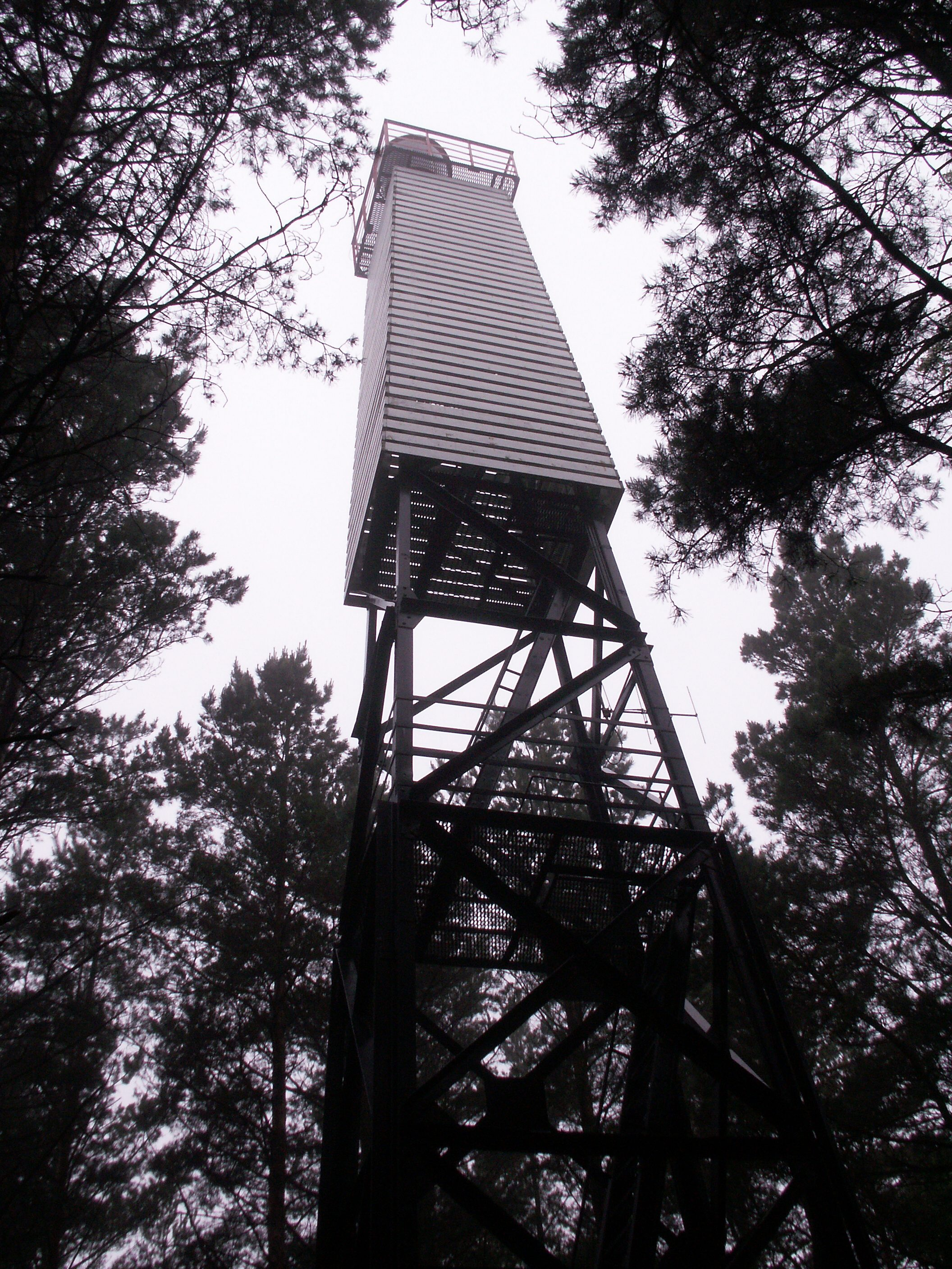 Juodkrantė lighthouse in hill of Withes, Neringa district, Lithuania